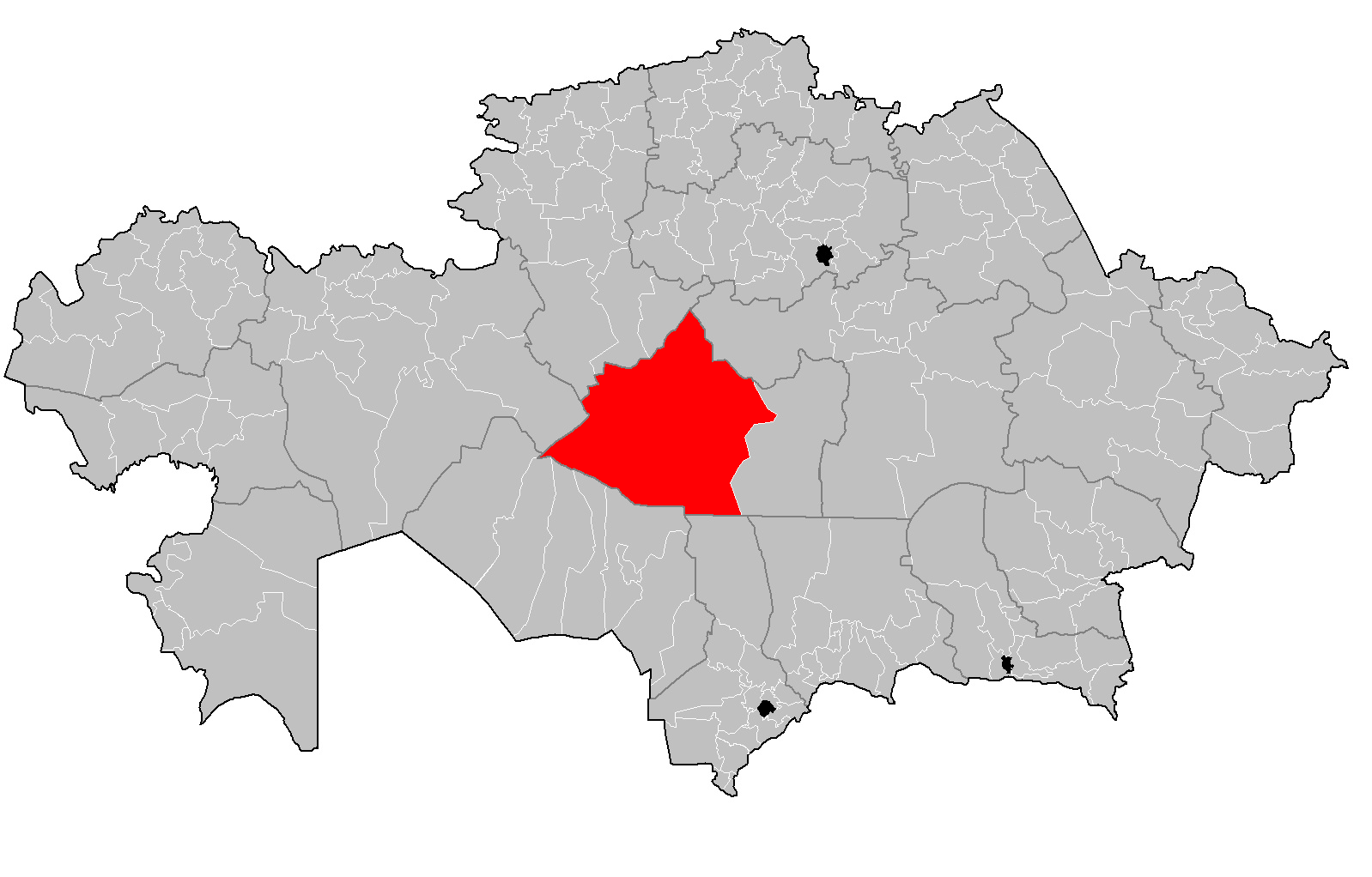 Map of the rayons of Kazakhstan. Created by Rarelibra 16:49, 3 August 2007 (UTC) for public domain use, using MapInfo Professional v8.5 and various mapping resources.